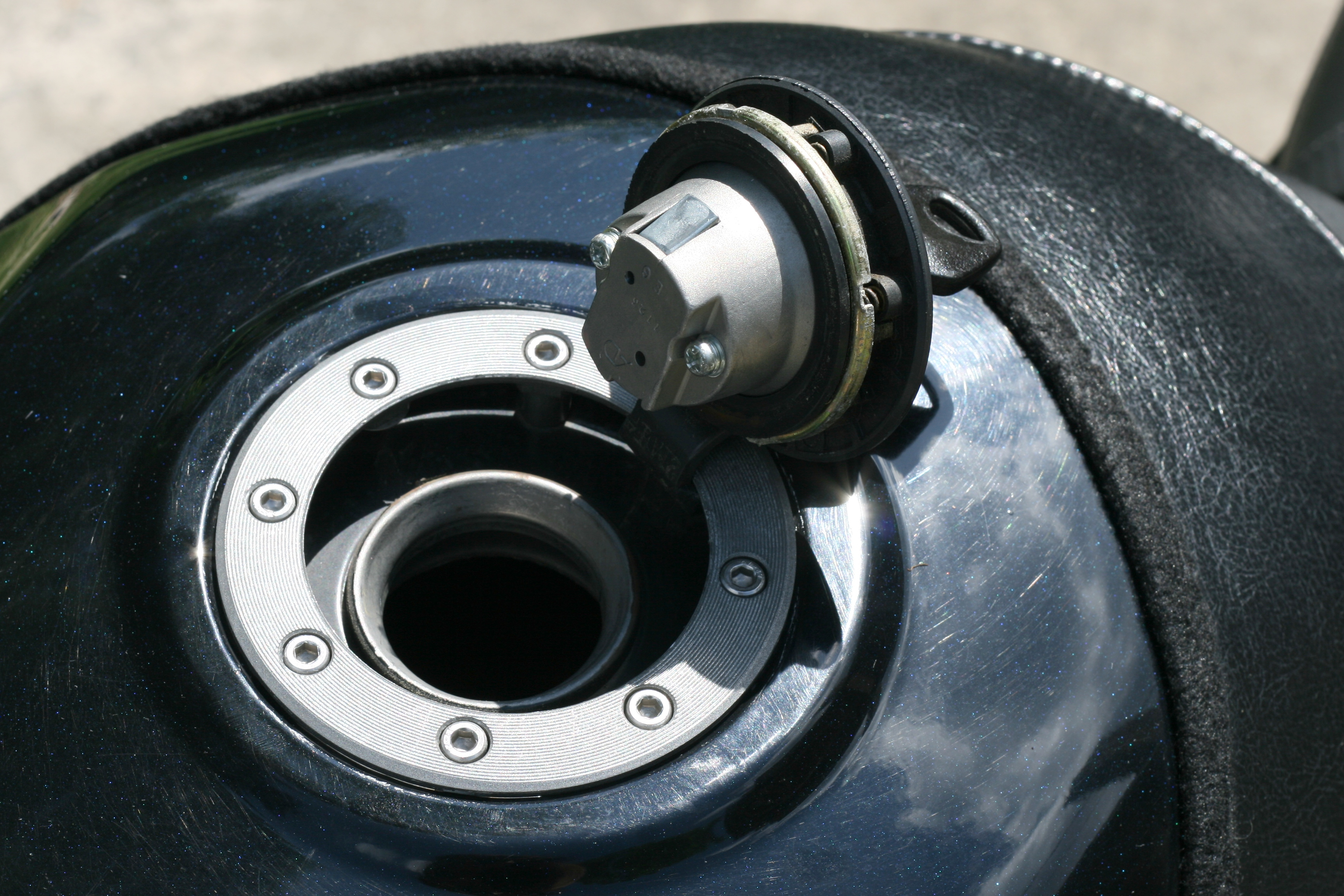 An open fuel cap on a 1998 Suzuki Bandit 1200 motorcycle.